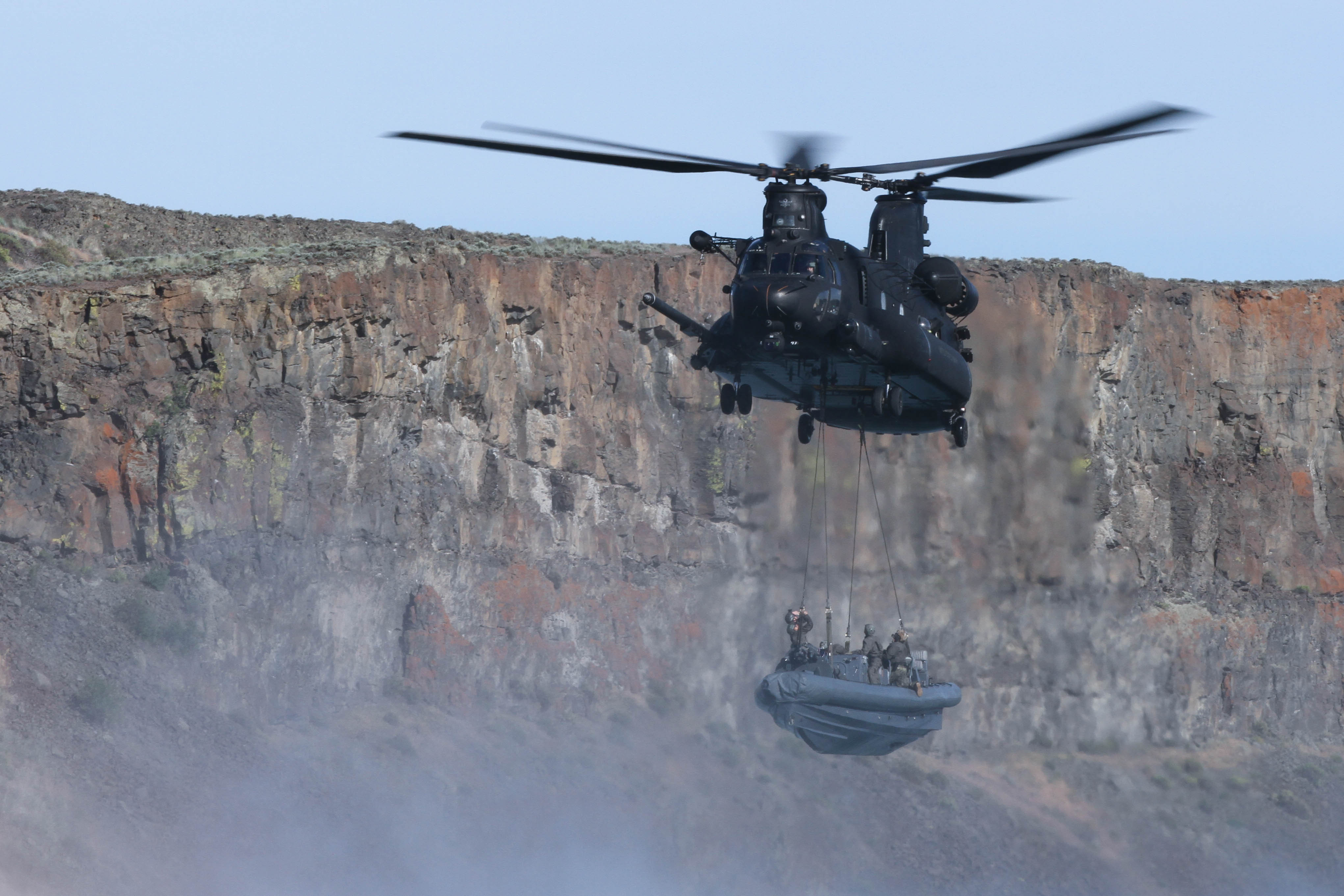 Special Warfare Combatant-craft Crewmen from Special Boat Team 12, stationed at Naval Base Coronado, Calif., with the help of aviators from 4th Battalion, 160th Special Operations Aviation Regiment, stationed at Joint Base Lewis-McChord, Wash., conducted a Maritime External Air Transportation System training evolution in Moses Lake, Wash., May 21. MEATS is a way to move a watercraft from a point on land or water to somewhere else using an Army MH-47G Chinook helicopter. The crewmen rig the boat to the helicopter as it hovers above, and then climb a rope ladder to board the helicopter before moving to the final destination, where they will slide down a rope to the boat before the helicopter disconnects the hoist cables. (U.S. Army photo by Sgt. Christopher Prows, 5th Mobile Public Affairs Detachment)